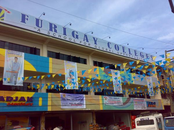 photo of Furigay Colleges during the Lami-Lamihan Festival 2008